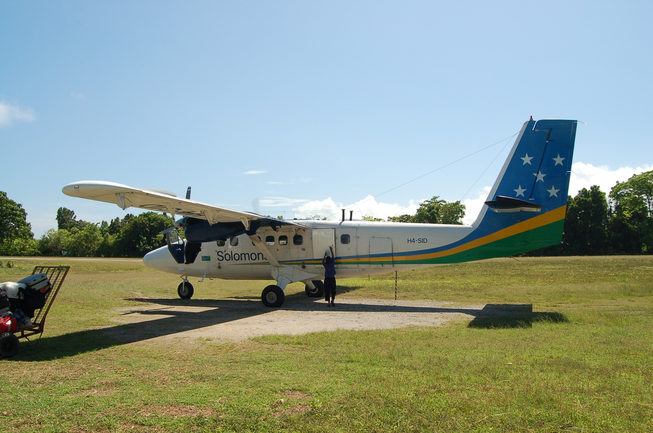 Solomon Airlines DHC-6 Twin Otter aircraft